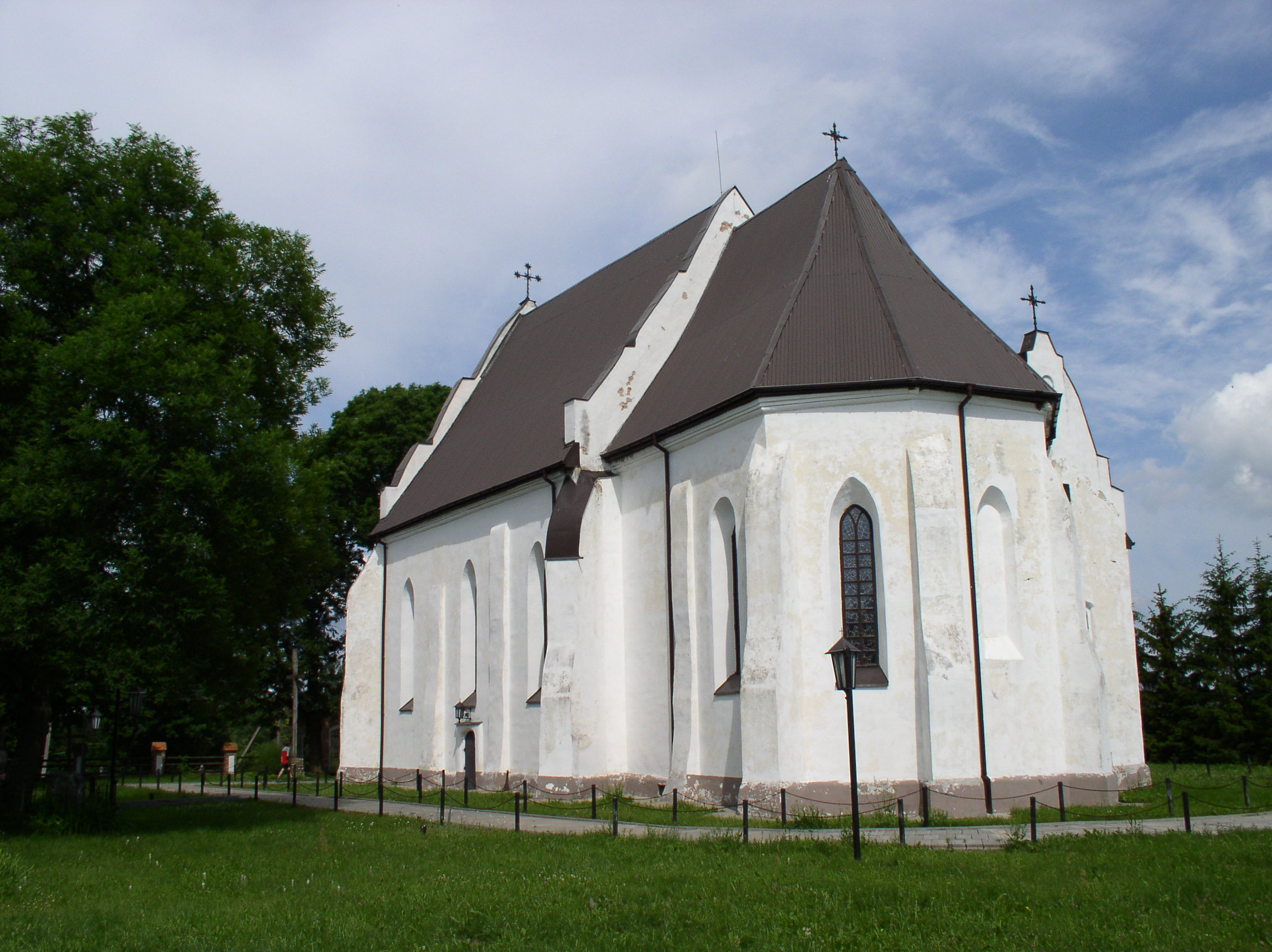 Church of Holy Trinity. Ishkaldz, Belarus.